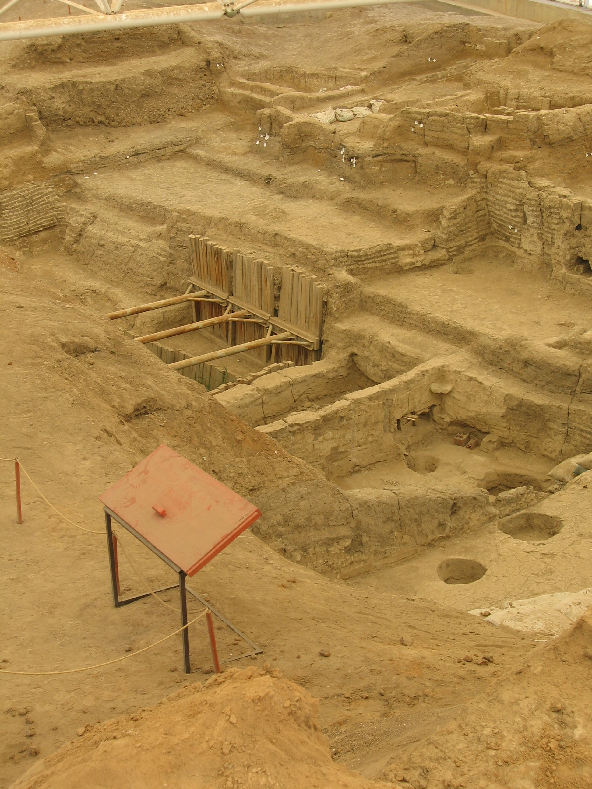 South shelter/Mellaart's excavations.